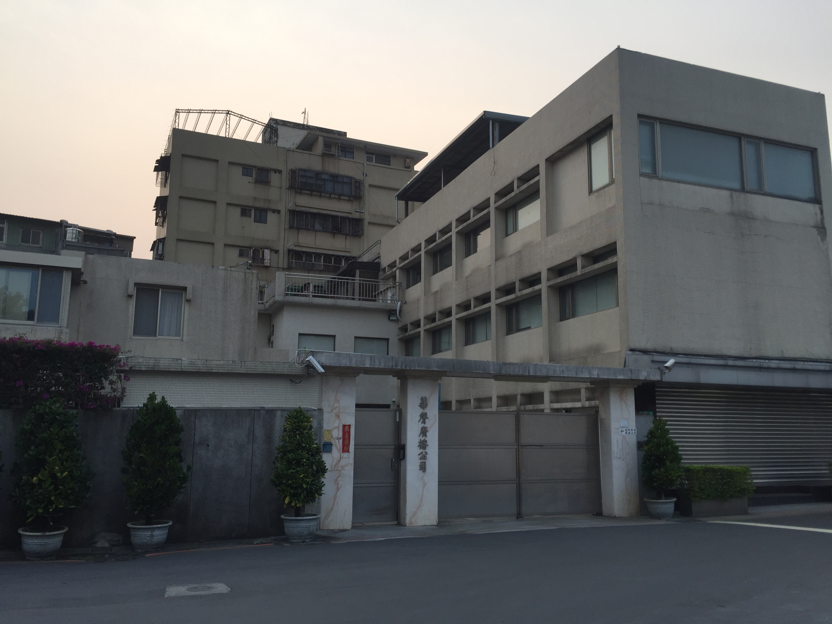 Hua Sheng Broadcasting Corporation.